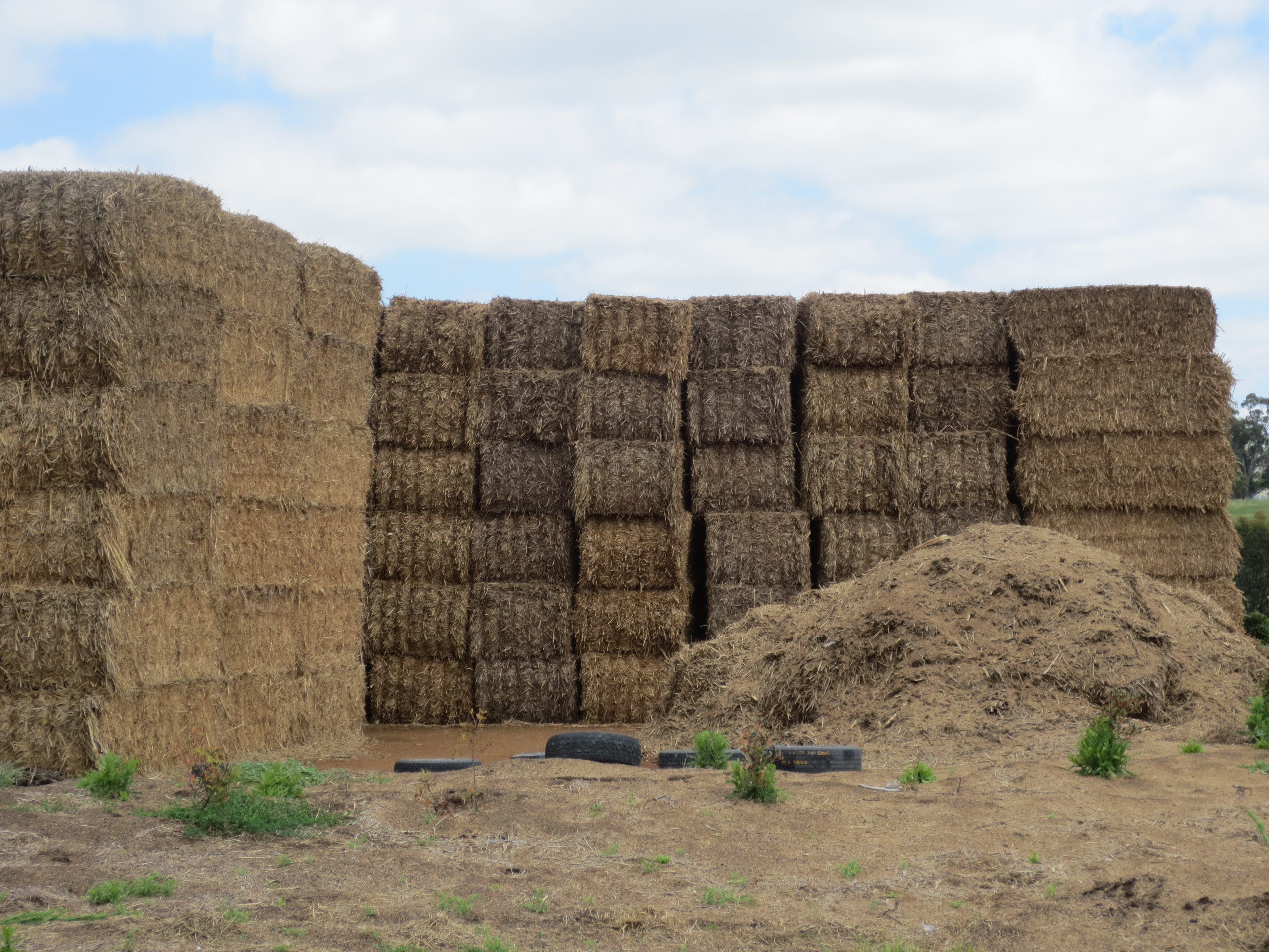 large uncovered stack of hay bales stacked just outside Yass Australia photo taken November 2015